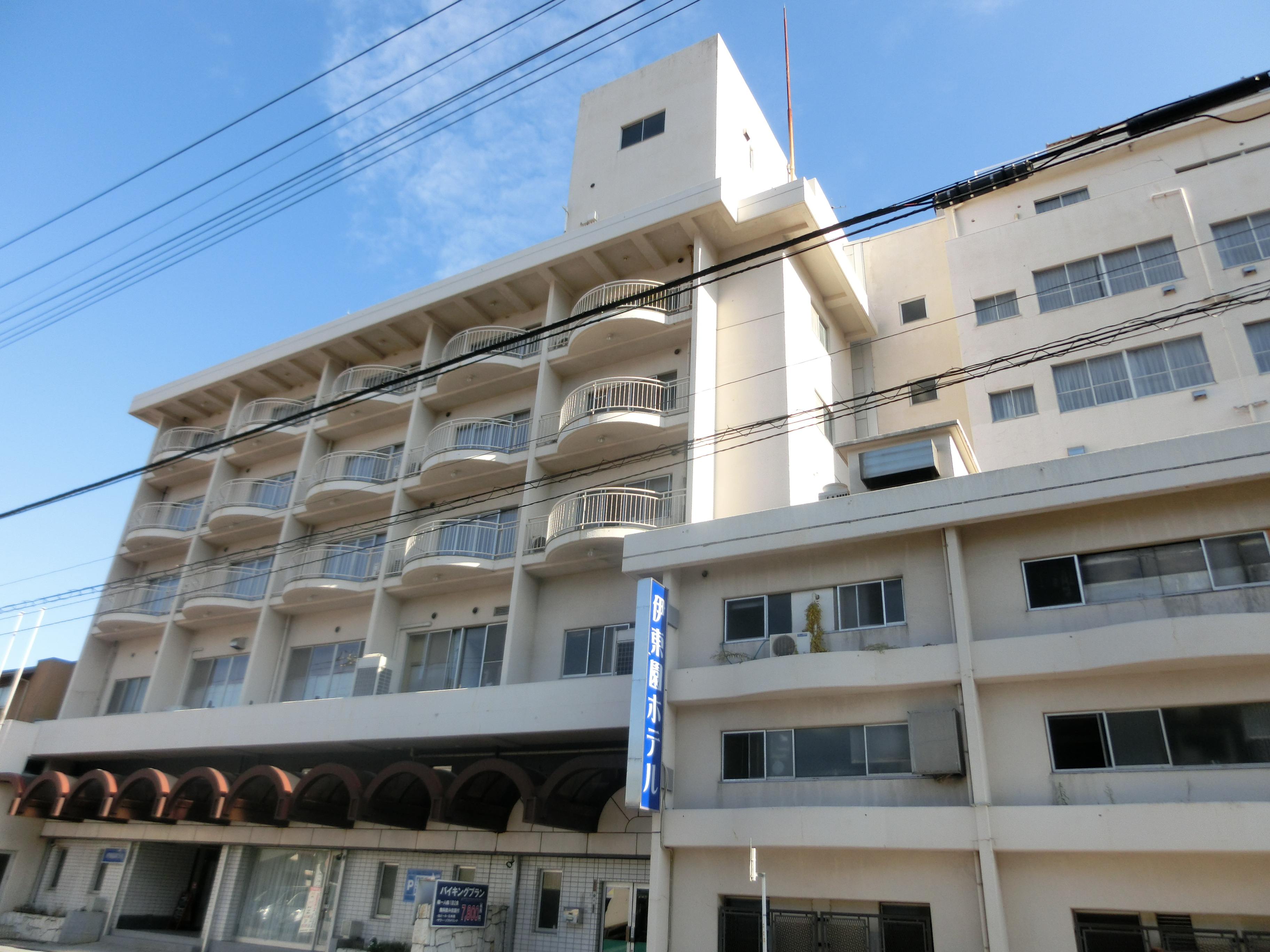 Itoen Hotel